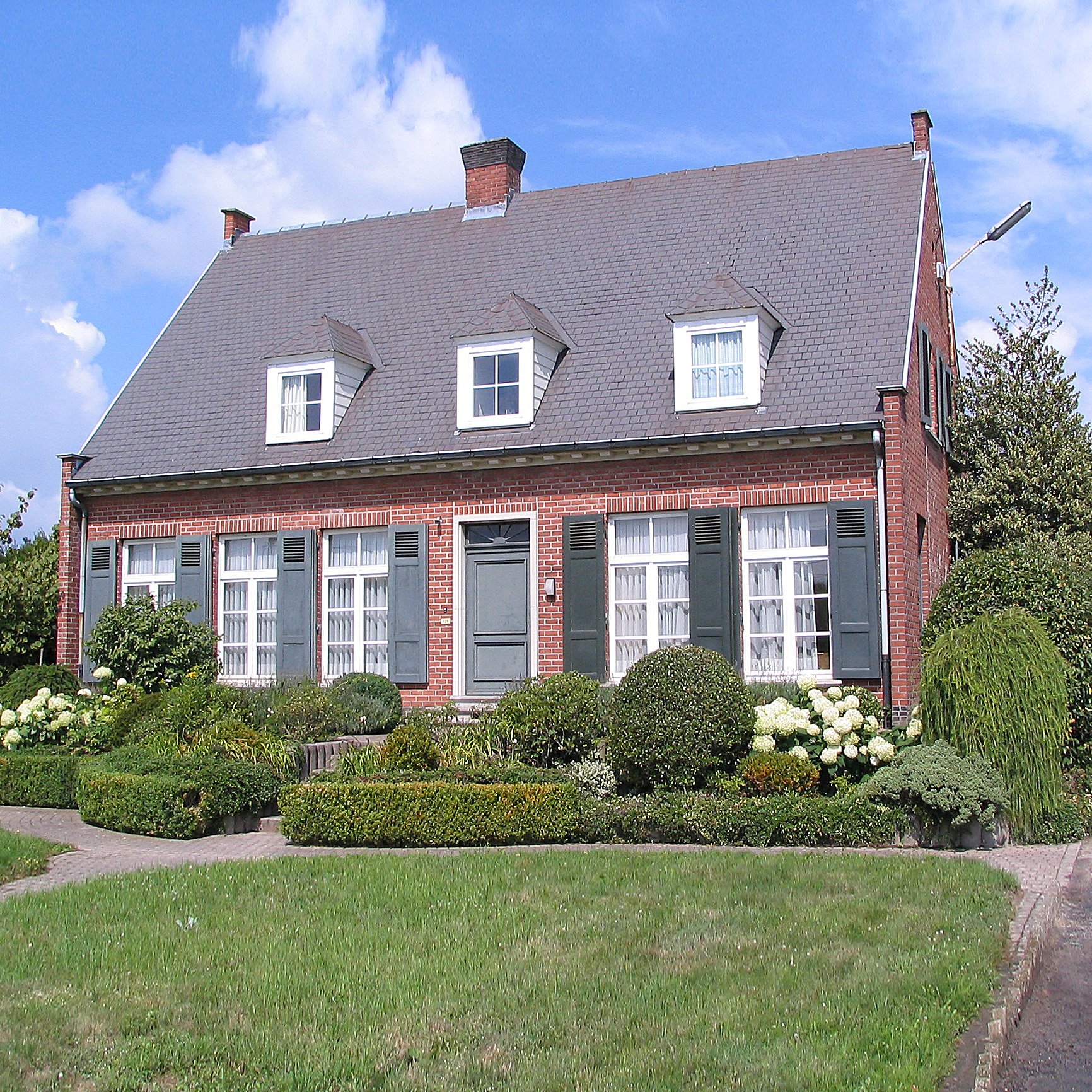 Front garden, Schellebelle Flanders